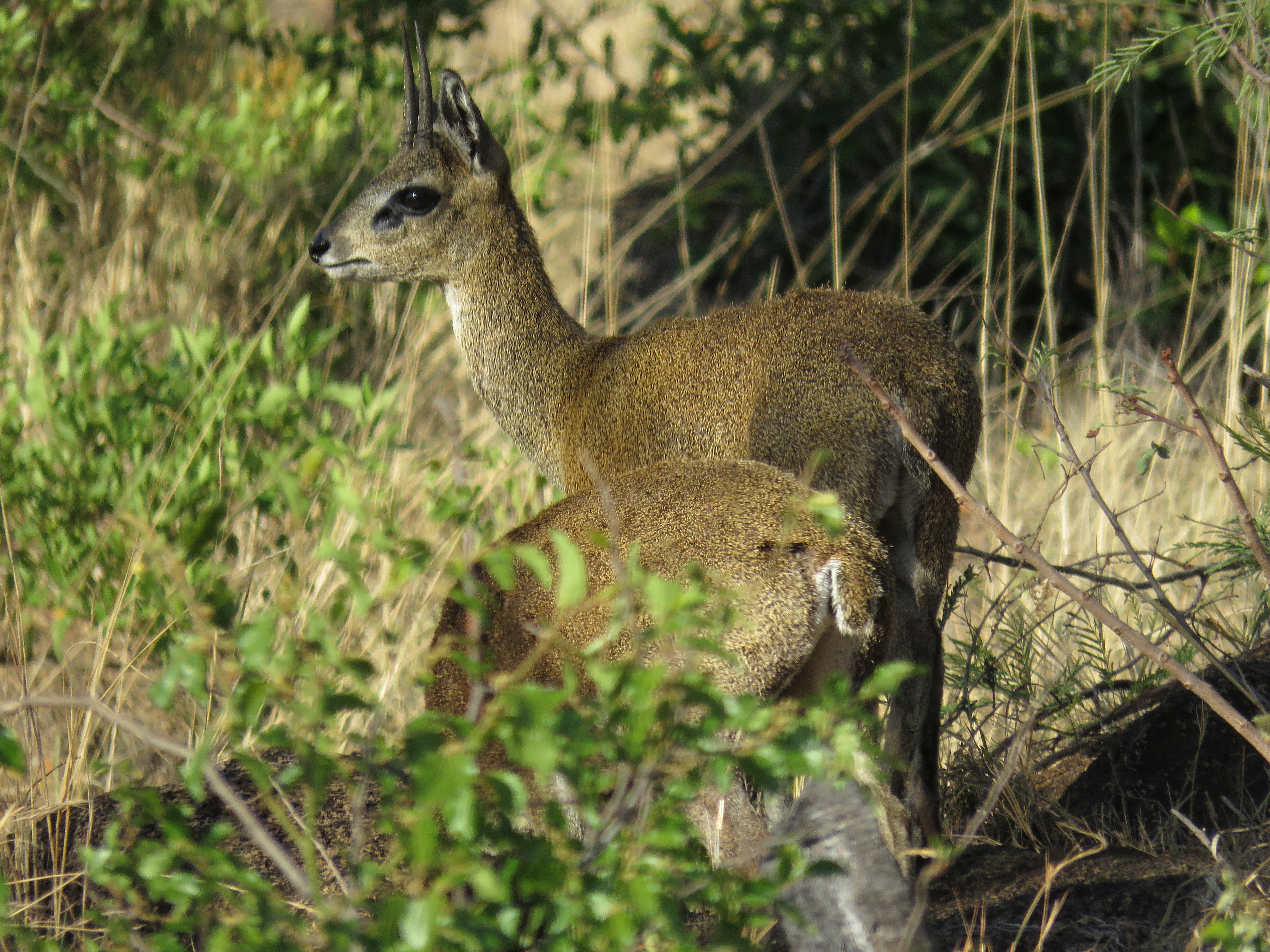 Klipspringer (Oreotragus oreotragus) pair in Pilanesberg national park, South Africa. They are demonstrating typical behaviour, a bonded couple taking turns to eat and keep lookout.